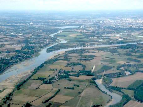 Aerial photograph of Angers and confluence of Loire river and Maine river.